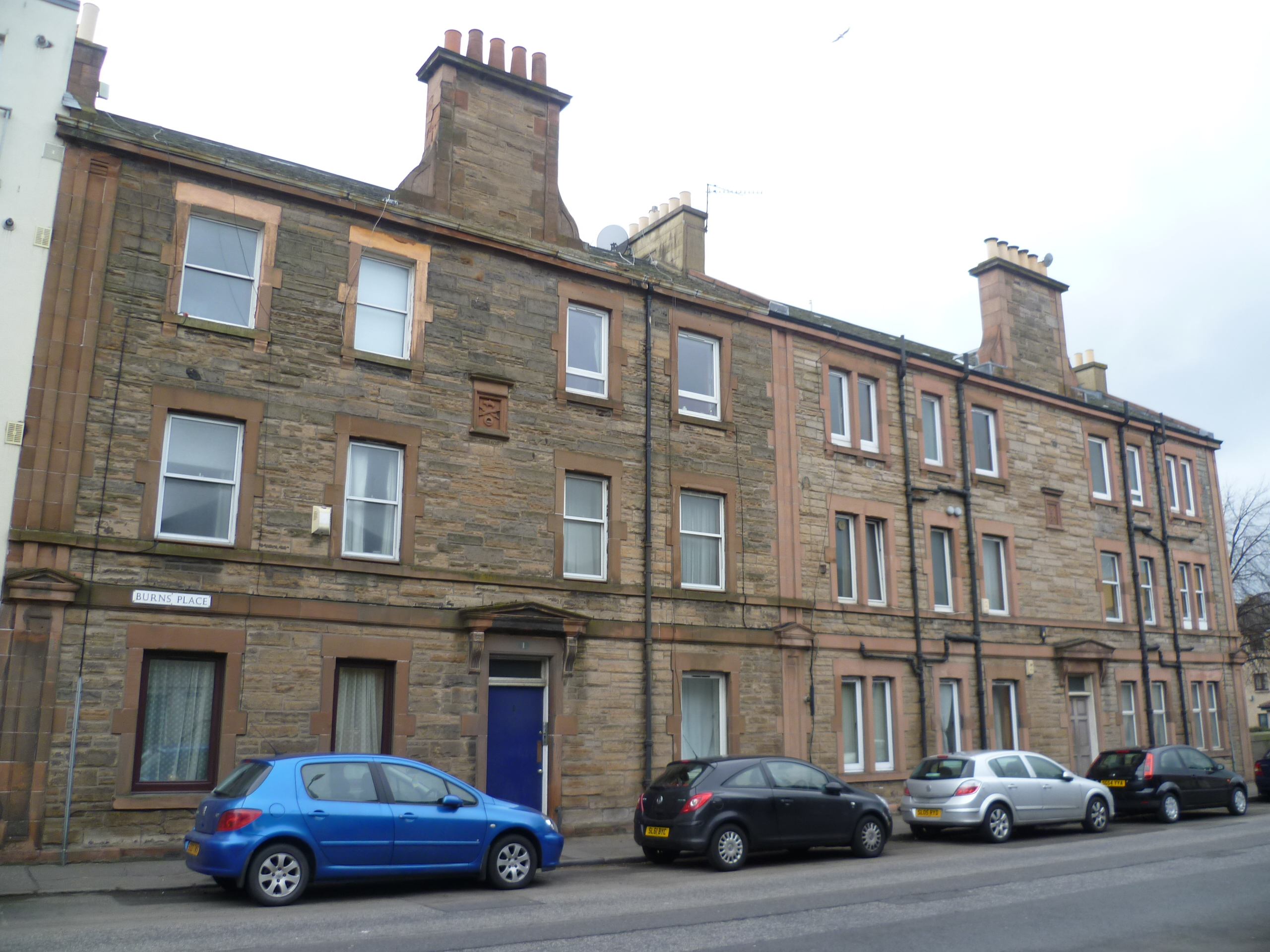 Tenement built to house the workers of the Robert Burns Skinworks at Bonnington.